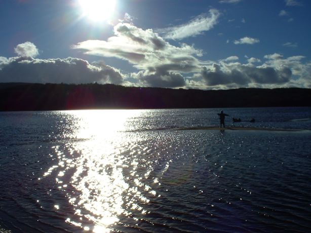 Lough Graney from Black Island. The headland known as Black Island is a popular walk, locally, at the northern end of Lough Graney (the Bleach River is out of shot on the left).